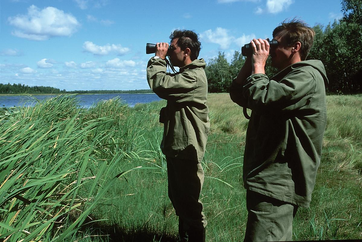 Staff of Khingansky Nature Reserve, Khabarovsk Region, Russian Far East. Credit: David Pitkin/USFWS